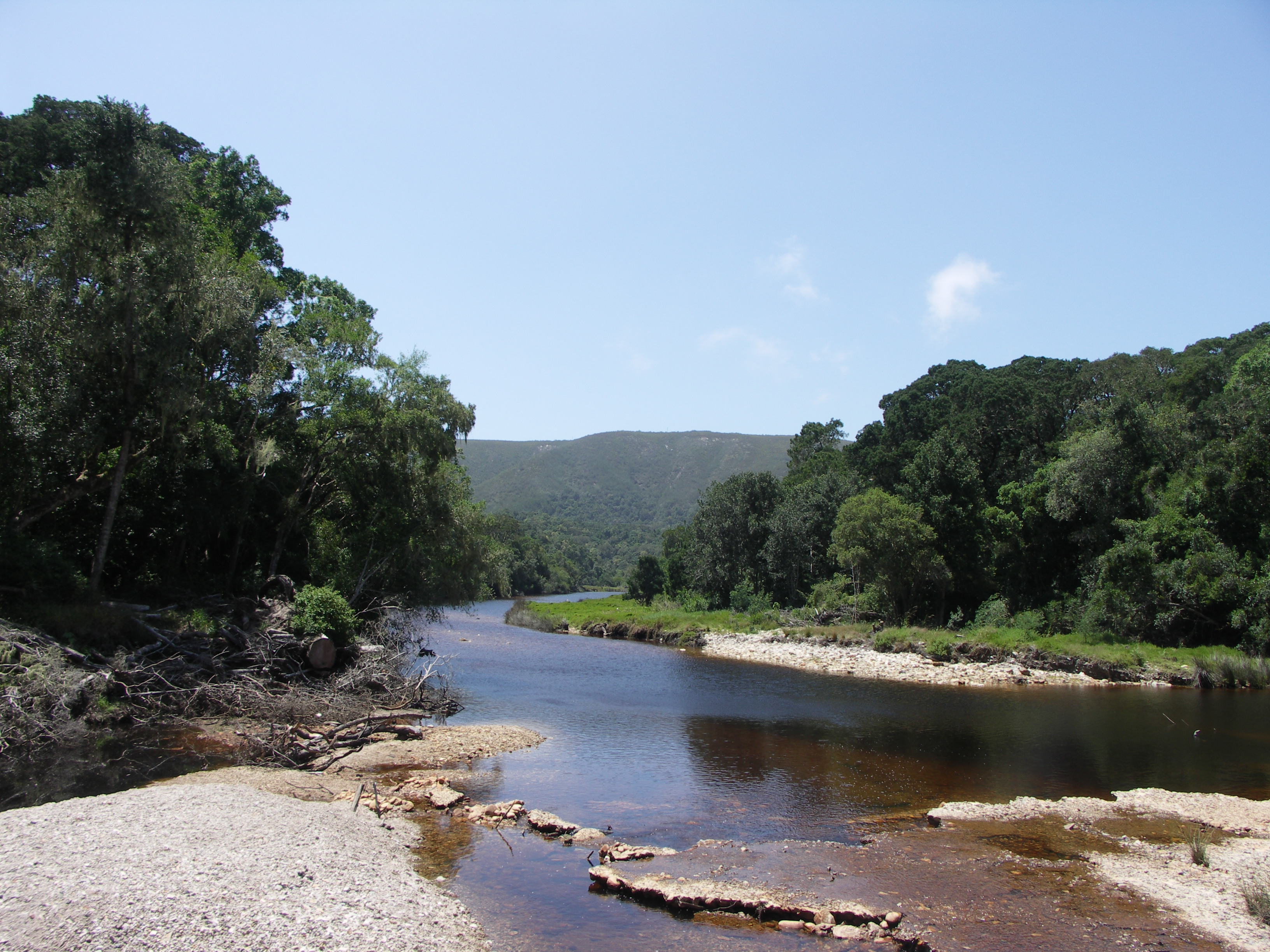 The Groot River near Nature's Valley in the Western Cape